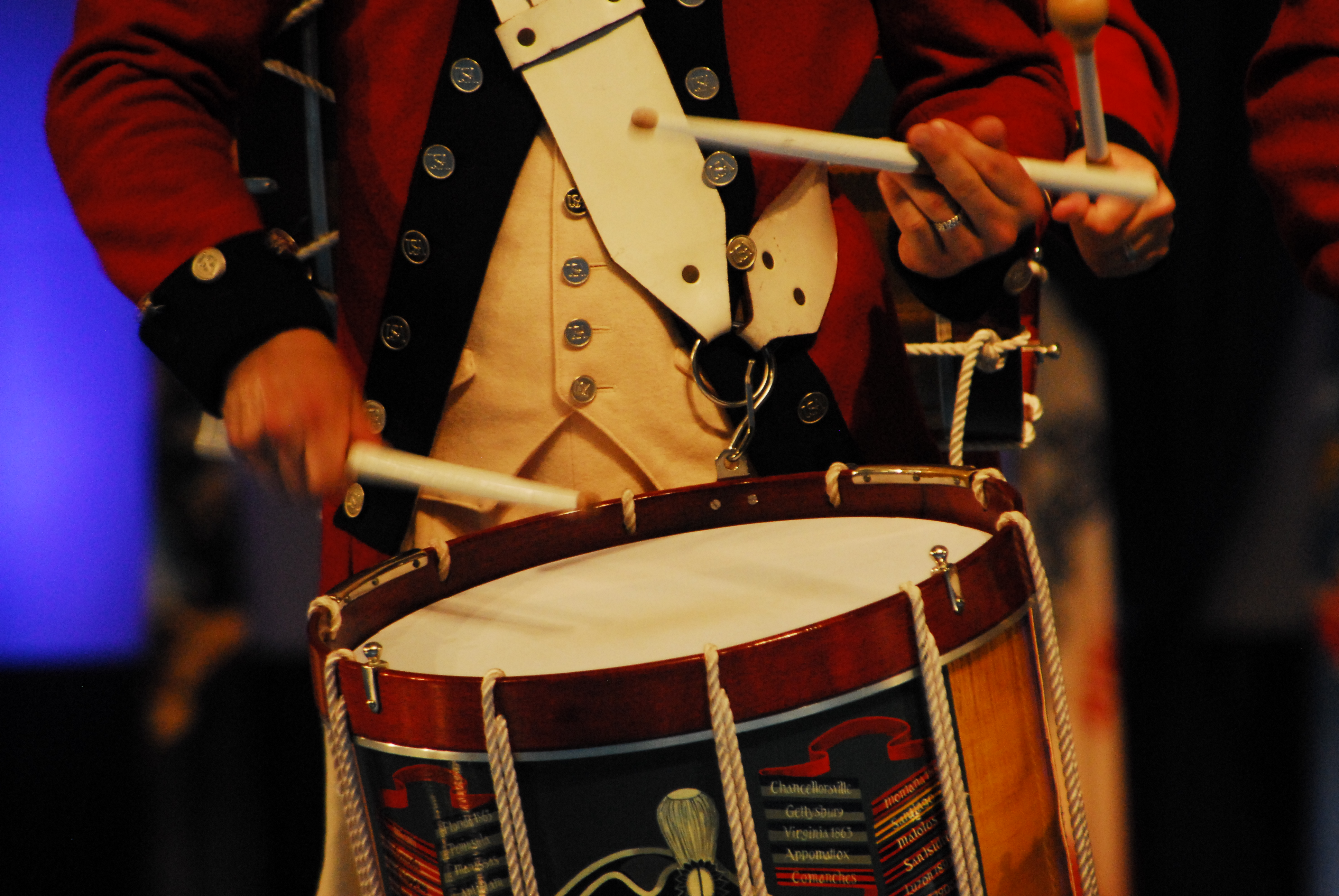 The Old Guard Fife and Drum Corps 50th Anniversary Tattoo (June 19, 2010) with the United States Military Academy Band "Hellcats" - West Point, NY; the United States Marine Drum and Bugle Corps - Washington, D.C.; Fifes and Drums of Colonial Williamsburg - Williamsburg, VA; City of Washington Pipe Band - Washington, D.C.; 1st Michigan Fifes and Drums -Sterling Heights, MI; Federal City Brass Band - Baltimore, MD; American Originals Fife and Drum Corps - Annapolis, MD.